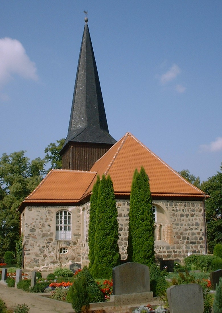 Church in Neuruppin-Karwe in Brandenburg, Germany